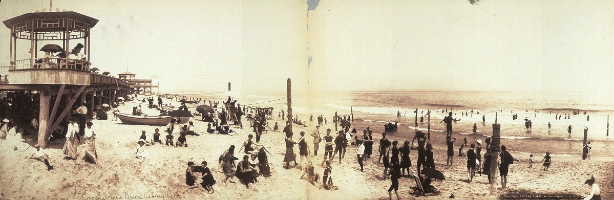 Fourth Avenue Beach at Asbury Park, New Jersey, 1902. Courtesy of the Library of Congress